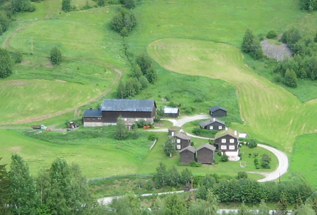 Norwegian farm Nordre Ekre seen from SW